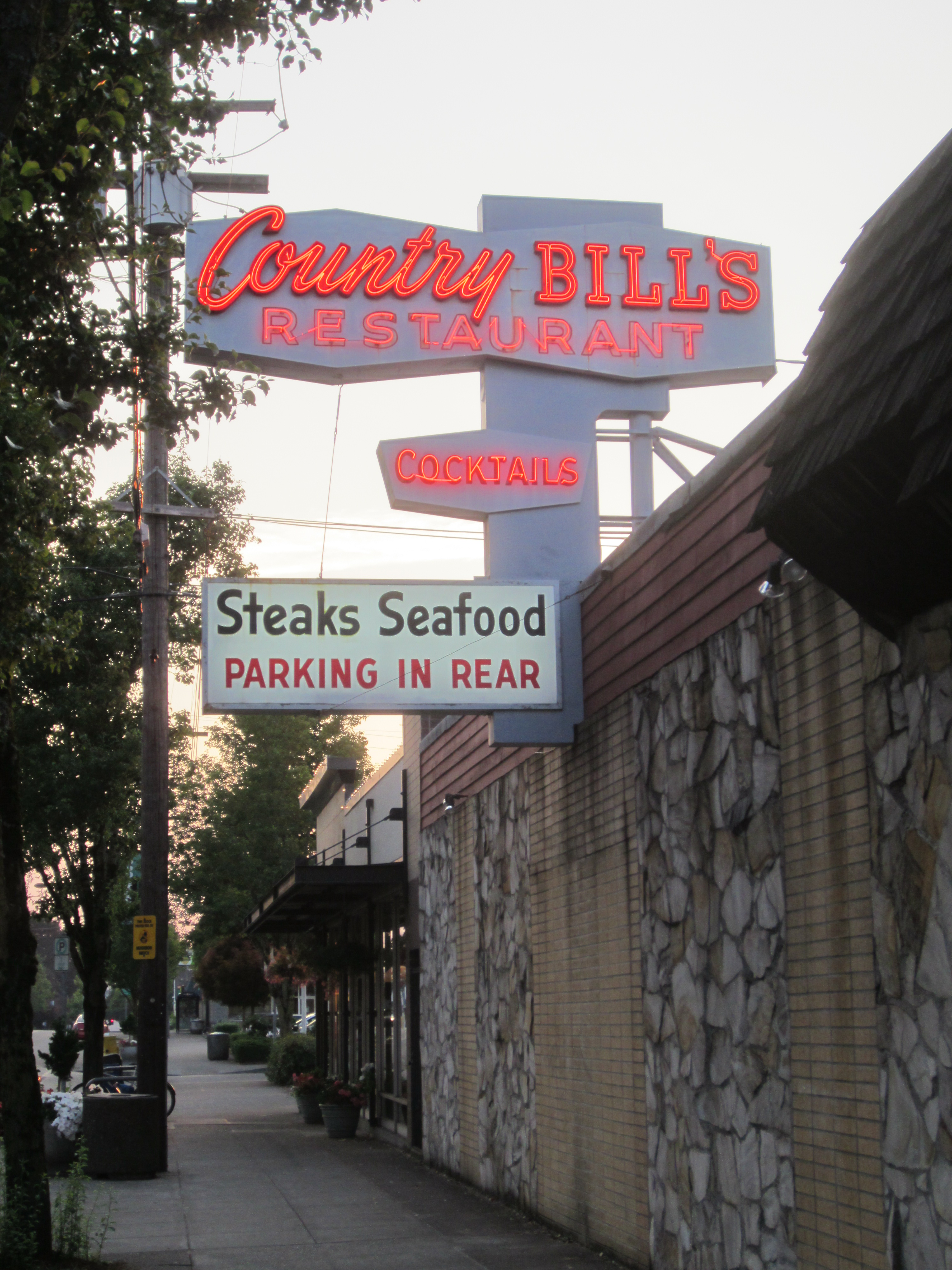 Country Bill's Restaurant in the Woodstock neighborhood of southeast Portland, Oregon in 2012